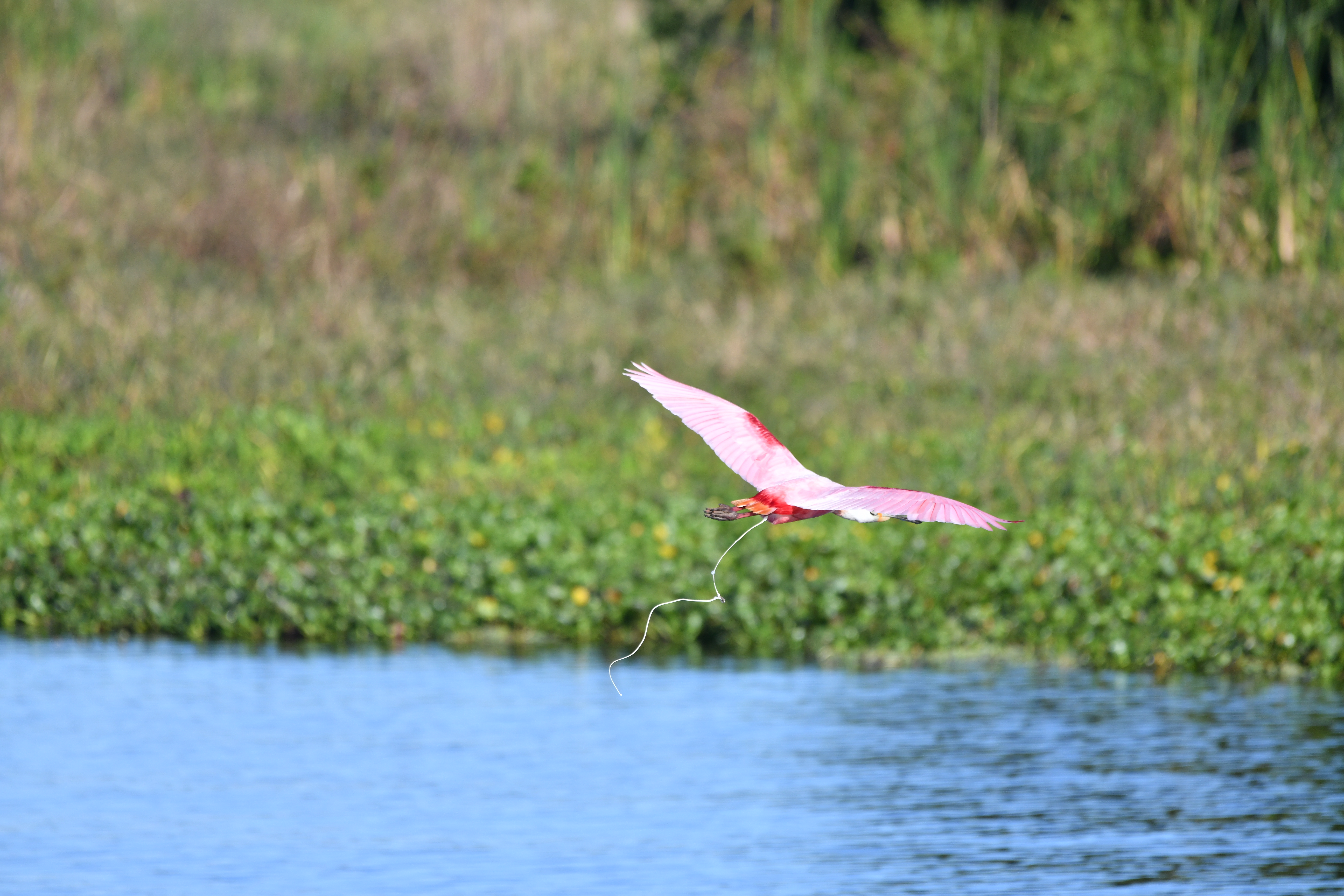 Birds excrete that white pasty stuff instead of separately urinating and defecating like mammals do.